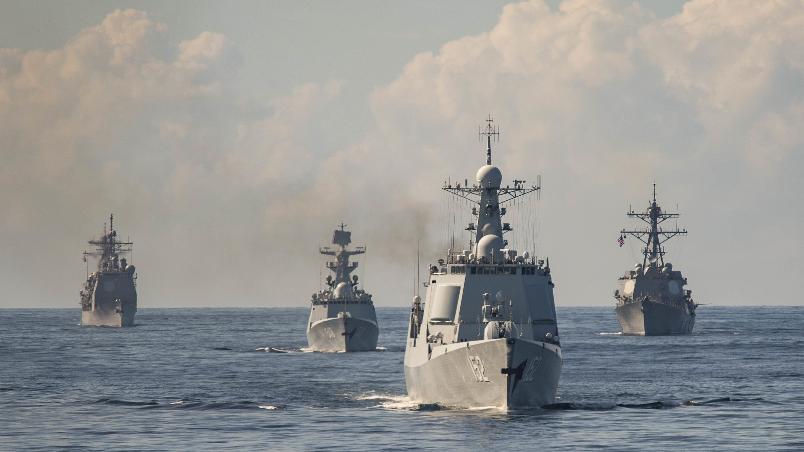 The Ticonderoga-class guided missile cruiser USS Monterey (CG 61), left, the Jiangkai-class frigate Yiyang (FFG 548), the Luyang II-class guided missile destroyer Jinan (DDG 152), center, and the Arleigh Burke-class guided missile destroyer USS Mason (DDG 87) steam in formation during a passing exercise in the Atlantic Ocean. The ships are currently underway conducting routine exercises in preparation for their deployment.